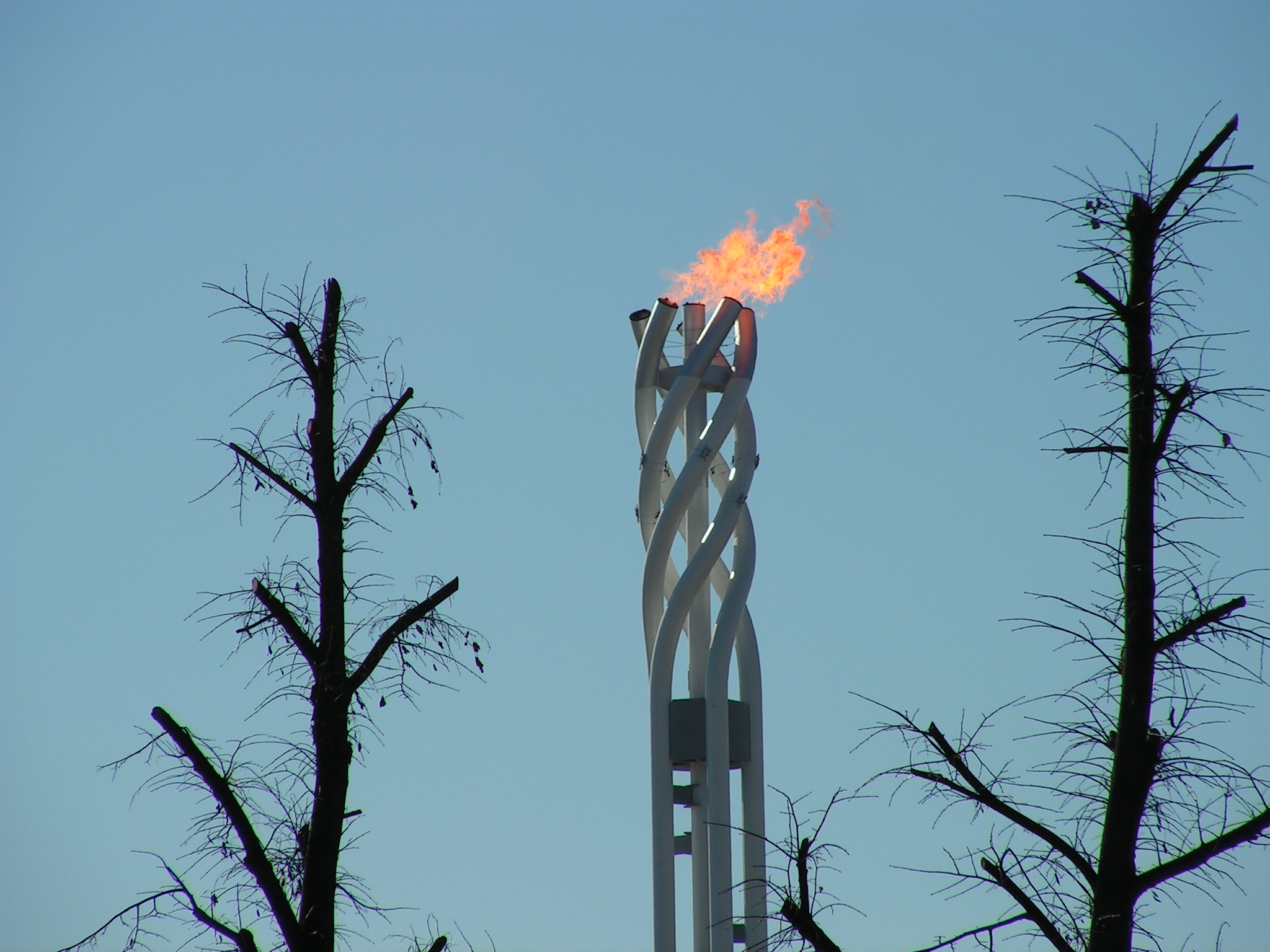 The Olympic flame of Turin 2006 with trees.